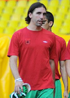 Spanish defender Jordi